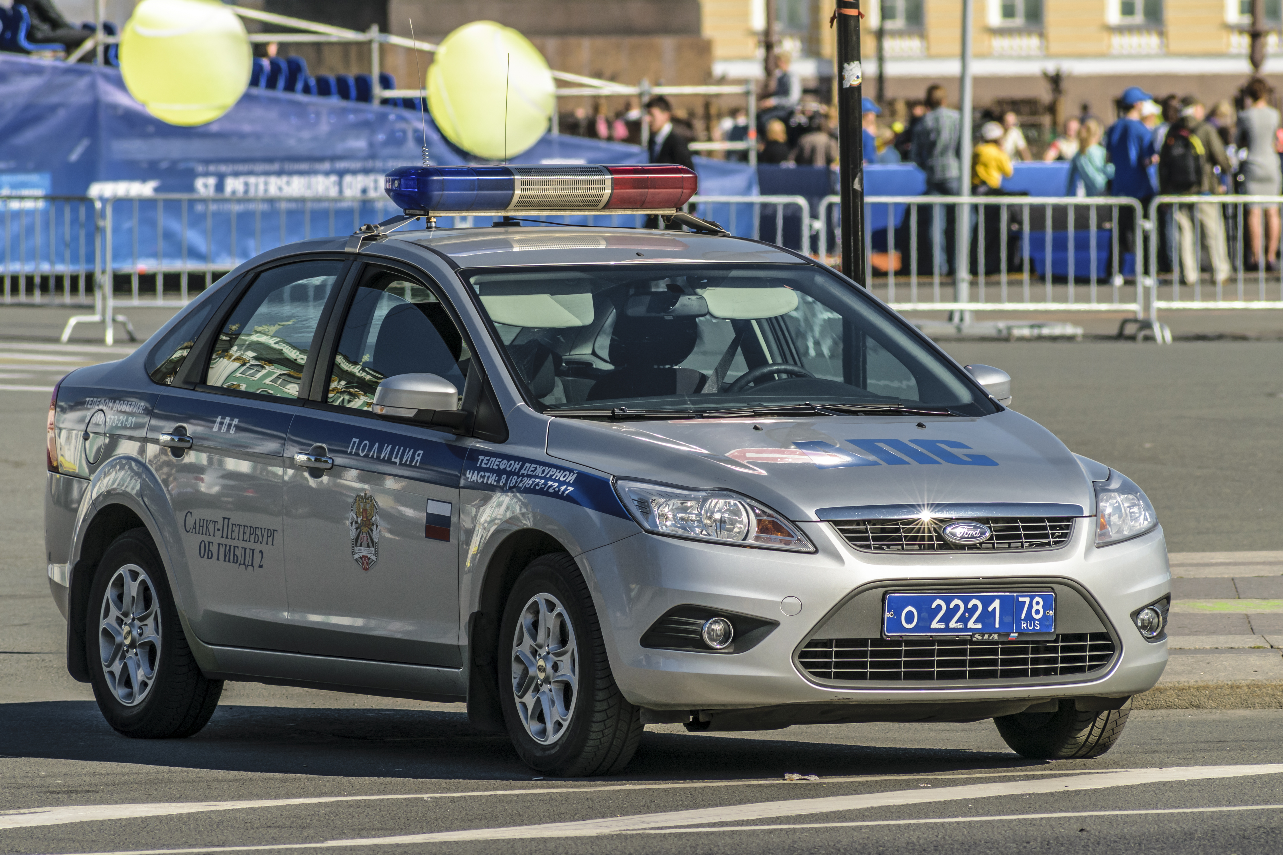 Police Car at Palace Square in Saint Petersburg